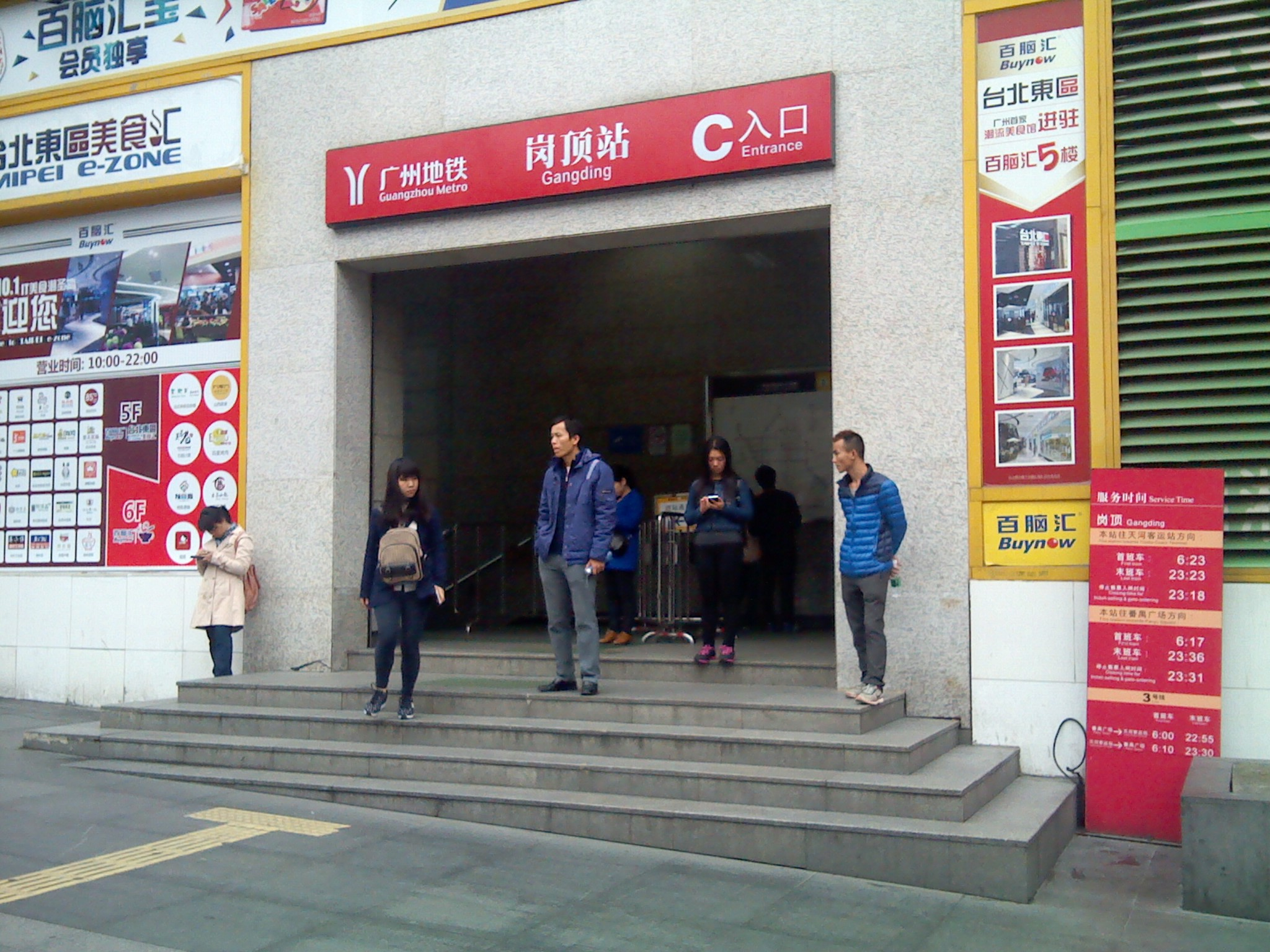 岗顶站C出入口